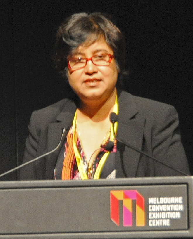 Taslima Nasrin speaking at the 2010 Global Atheist Convention